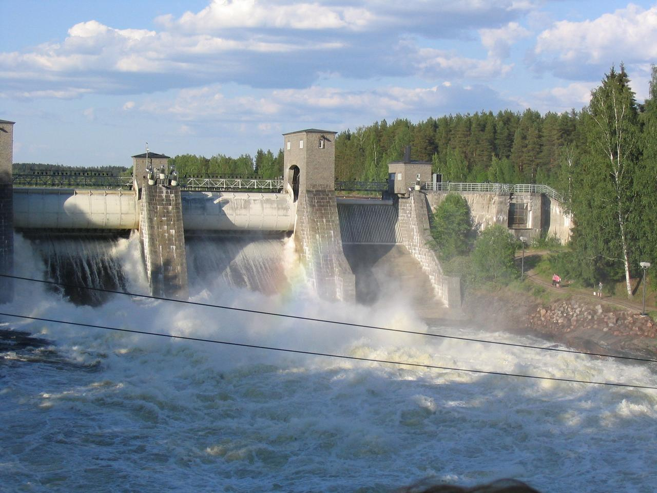 Imatrankoski hydroelectric power plant in river Vuoksa, Imatra, Finland